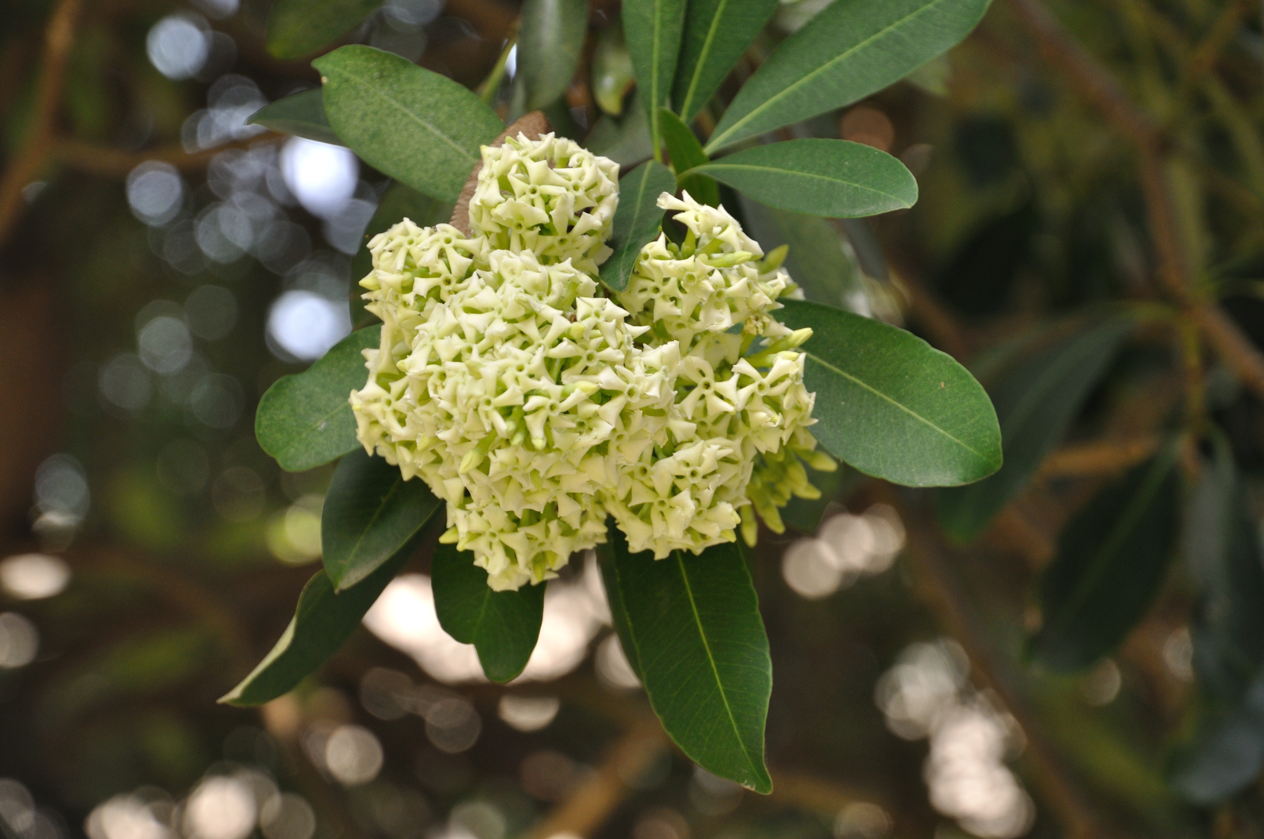 Saptaparni/ Blackboard tree/ Indian devil tree/ Ditabark/ Milkwood pine/ White cheesewood/ Pulai/ Chhatim, photographed at Kolkata.